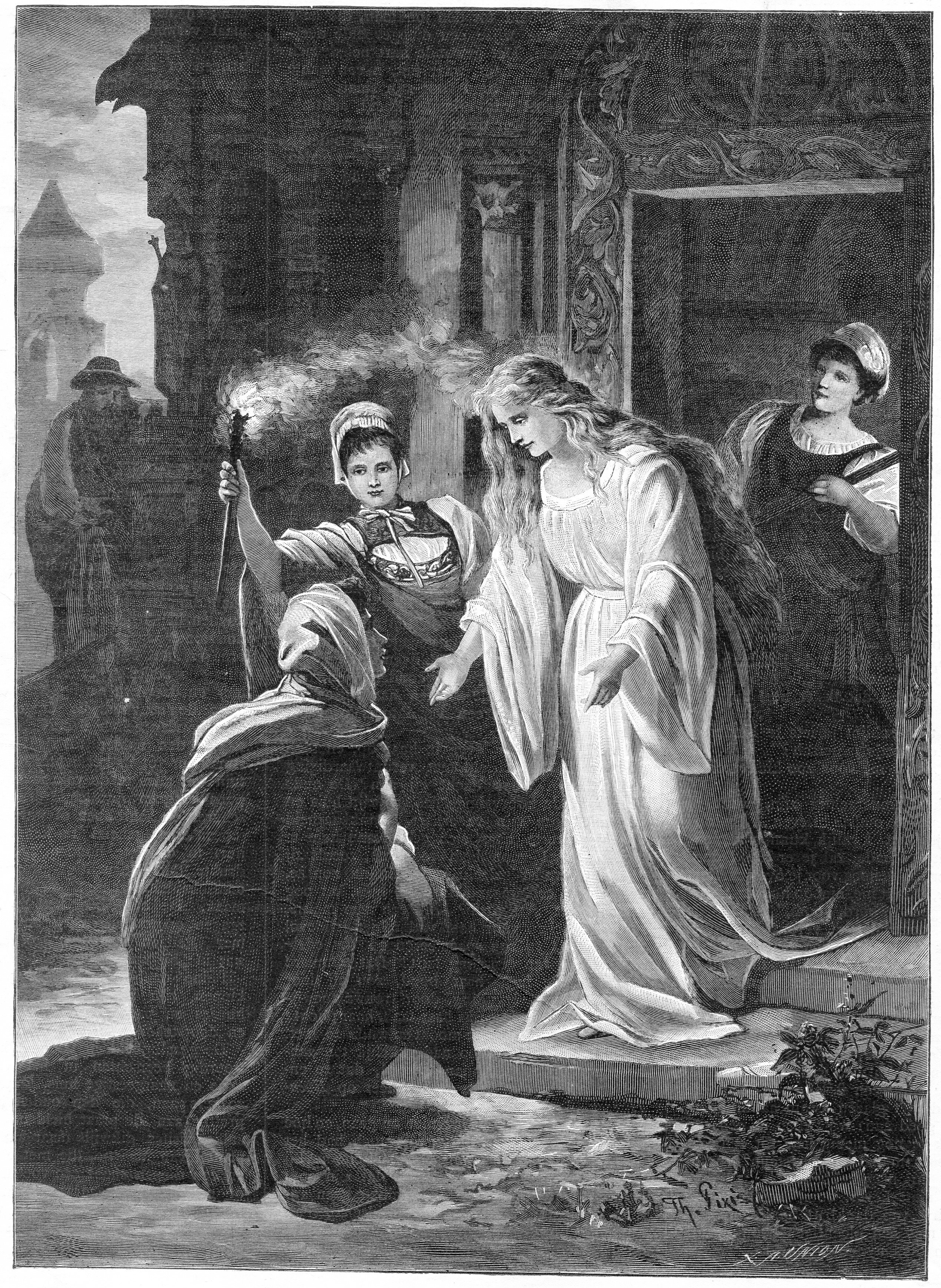 Kath. Illustratie 1894 Lohengrin, Ortrud knees for Elsa, by Th. Pixis